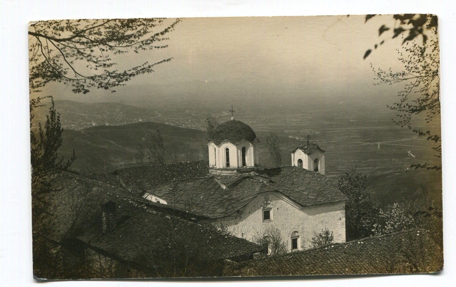 Bukovo monastery